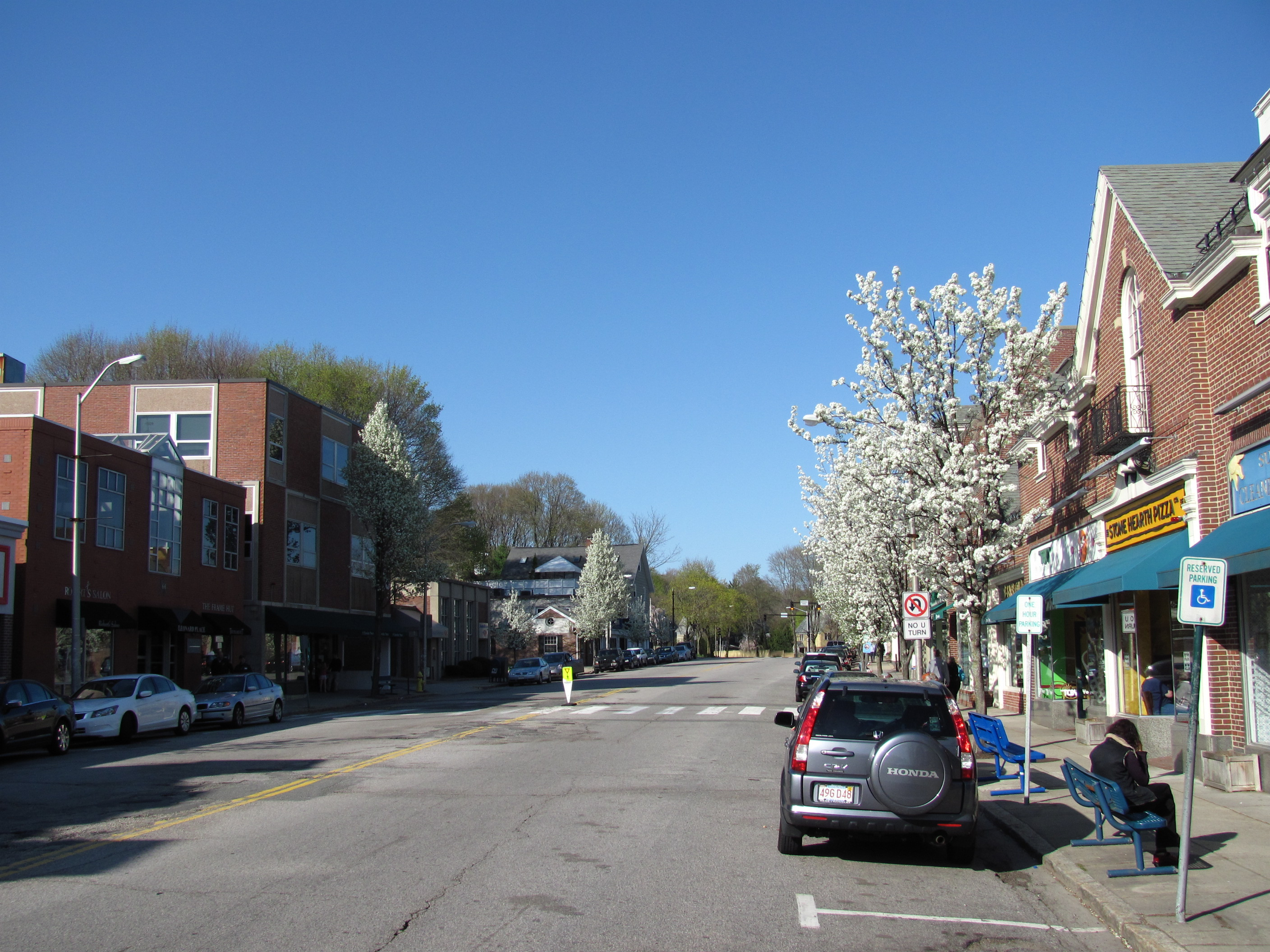 Looking north on Leonard Street, Belmont Massachusetts